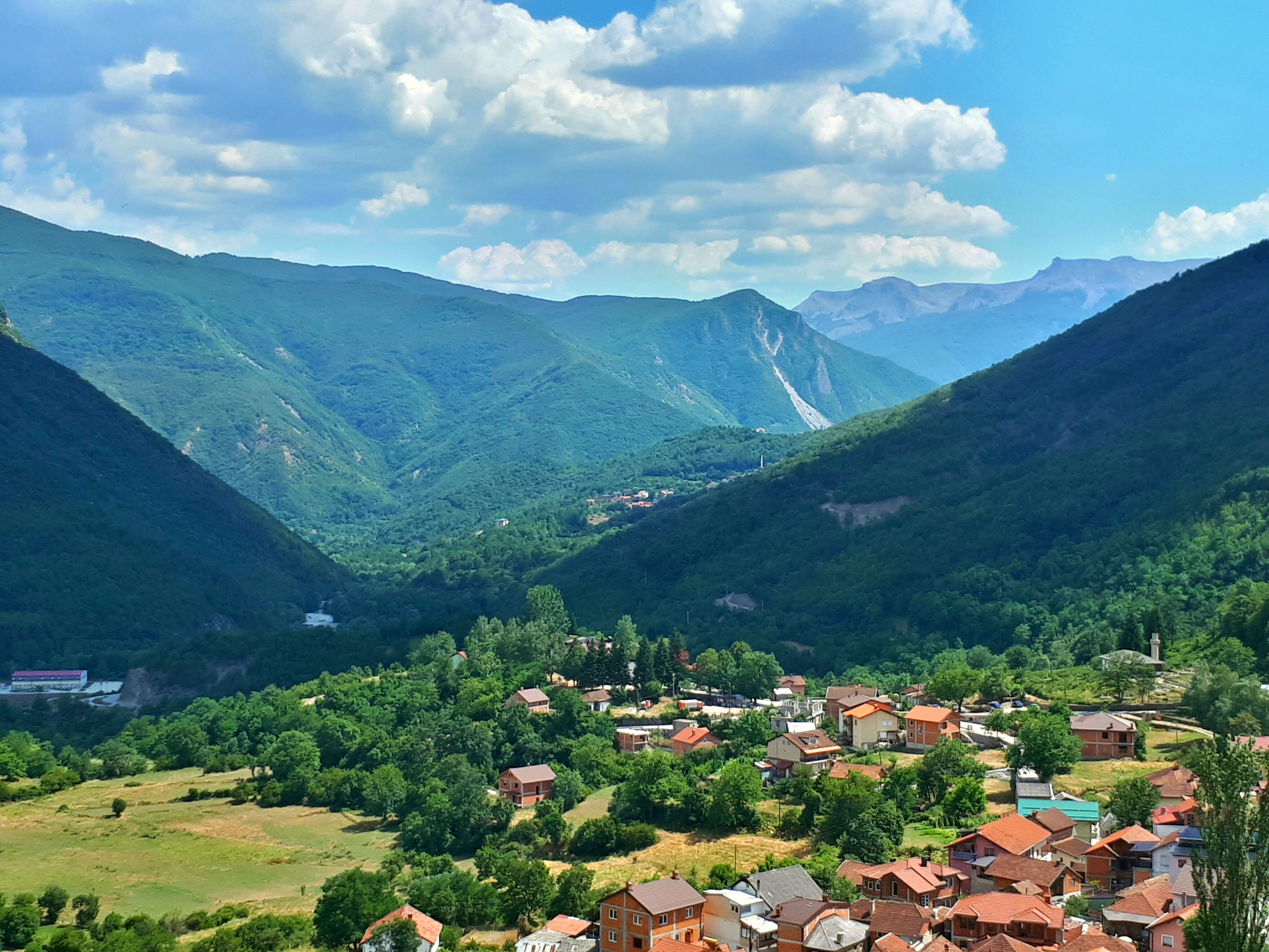 Panoramic view of the village of Rostuša with the village of Adžievci in the distance